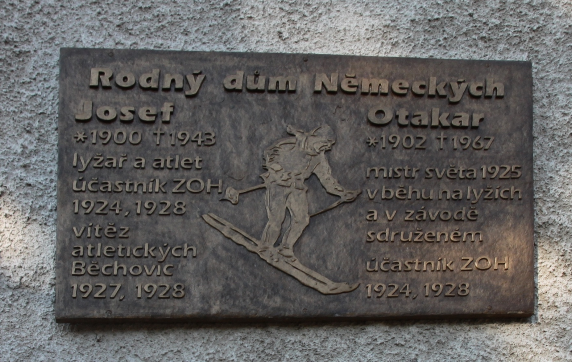 Memorial plaque to outstanding skiers Josef and Otakar Německý in Nové Město na Moravě, Žďár nad Sázavou District, Czechia.